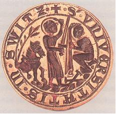 Siegel Land Schwyz 1294, Schweiz